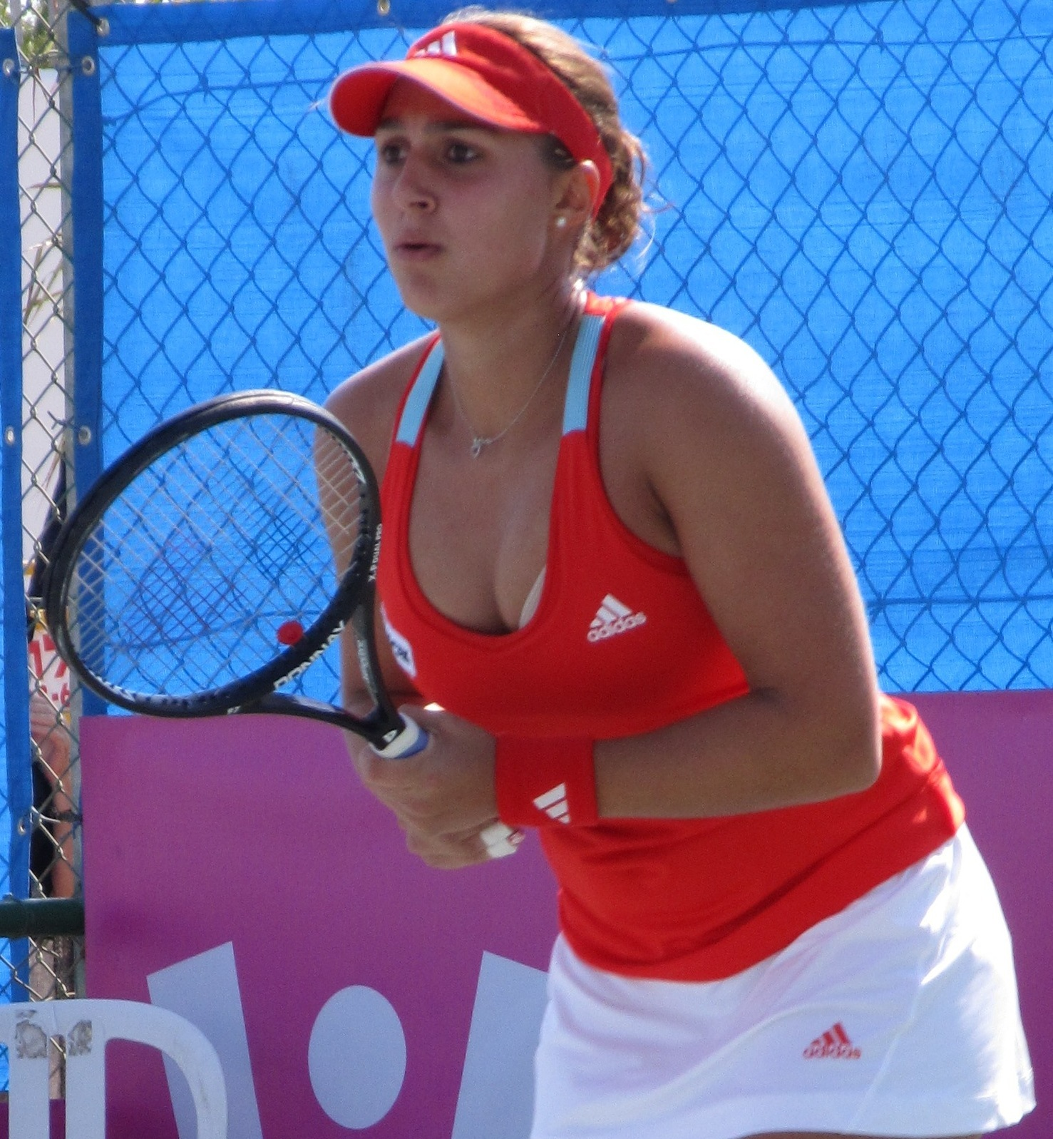 The tennis player Tamira Paszek of Austria during her match against Anett Kontaveit of Estonia in the 2nd day of Fed Cup Group I 2012 Europe/ Africa in Eilat, Israel.